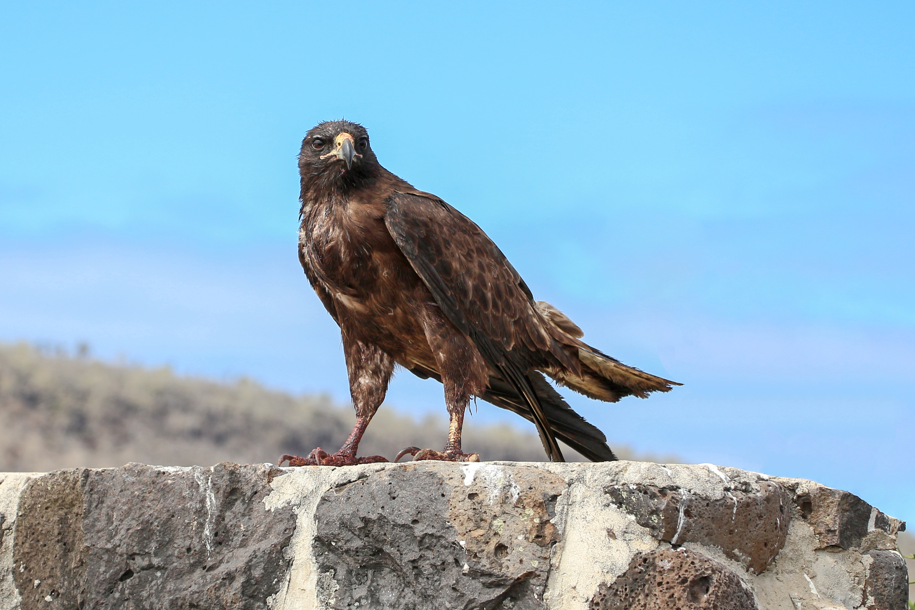 Galapagos hawk (Buteo galapagoensis) in Santa Fe Island, Galápagos National Park, Ecuador